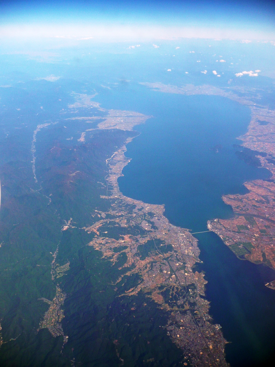 Yodo River (淀川), also called the Seta River (瀬田川 ) and the Uji River (宇治川) at portions of its route, is the principal river in Osaka Prefecture on Honshū, Japan.